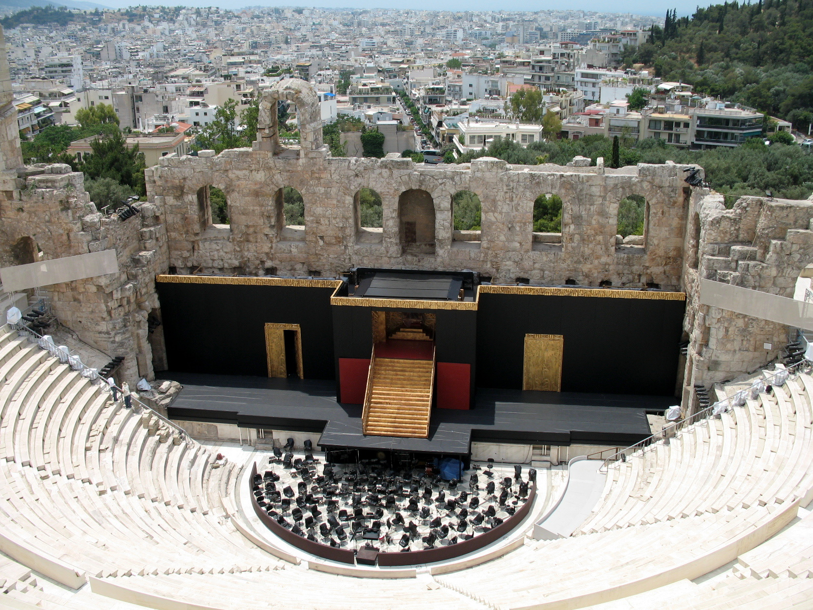 Performance on the Theatre of Herodes Atticus, in the Acropolis of Athens.